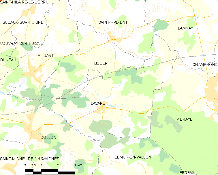 Map of French municipality